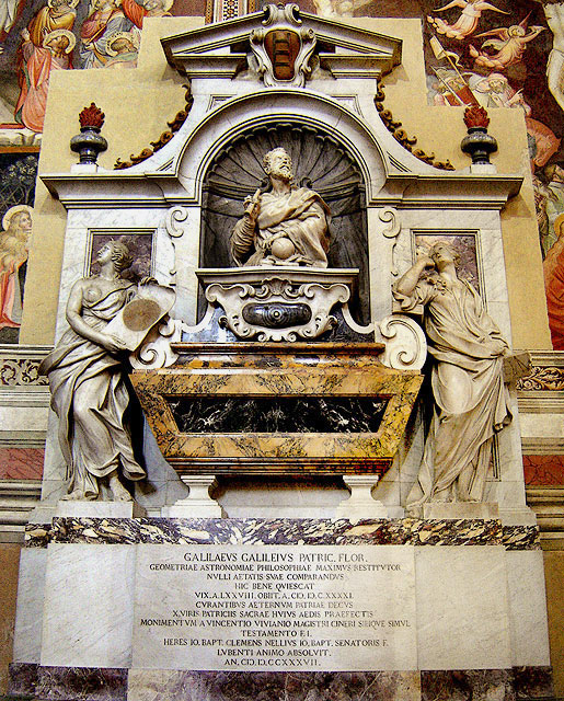 Galileo's tomb inside Santa Croce, Florence, Italy.